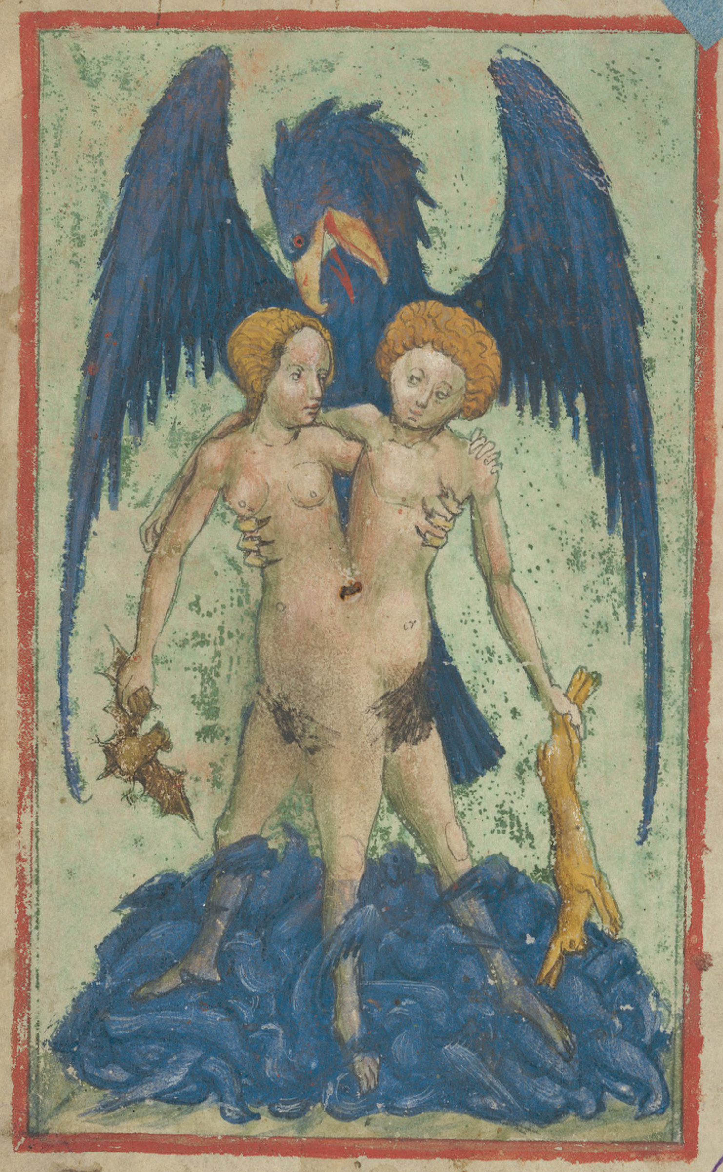 Aurora Consurgens medieval manuscript, exemplar from Zürich Zentralbibliothek, Ms. Rh. 172 Parchemin, 100 ff., 20.4 x 13.9 cm, Saint Gall, XVe siècle, latin 10.5076/e-codices-zbz-Ms-Rh-0172 Downloaded from the above site, cropped by GAllegre inner cover